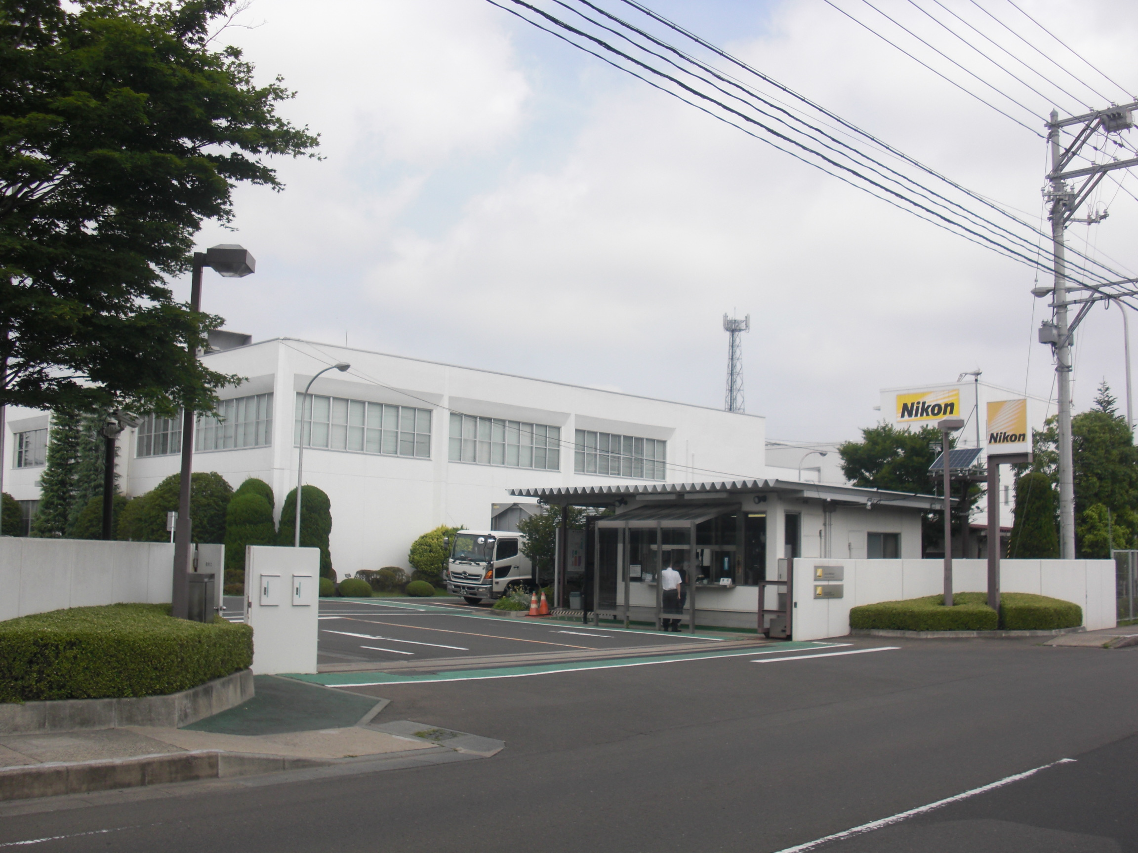 This is Sendai Nikon Corporation head office in Natori, Miyagi, Japan.